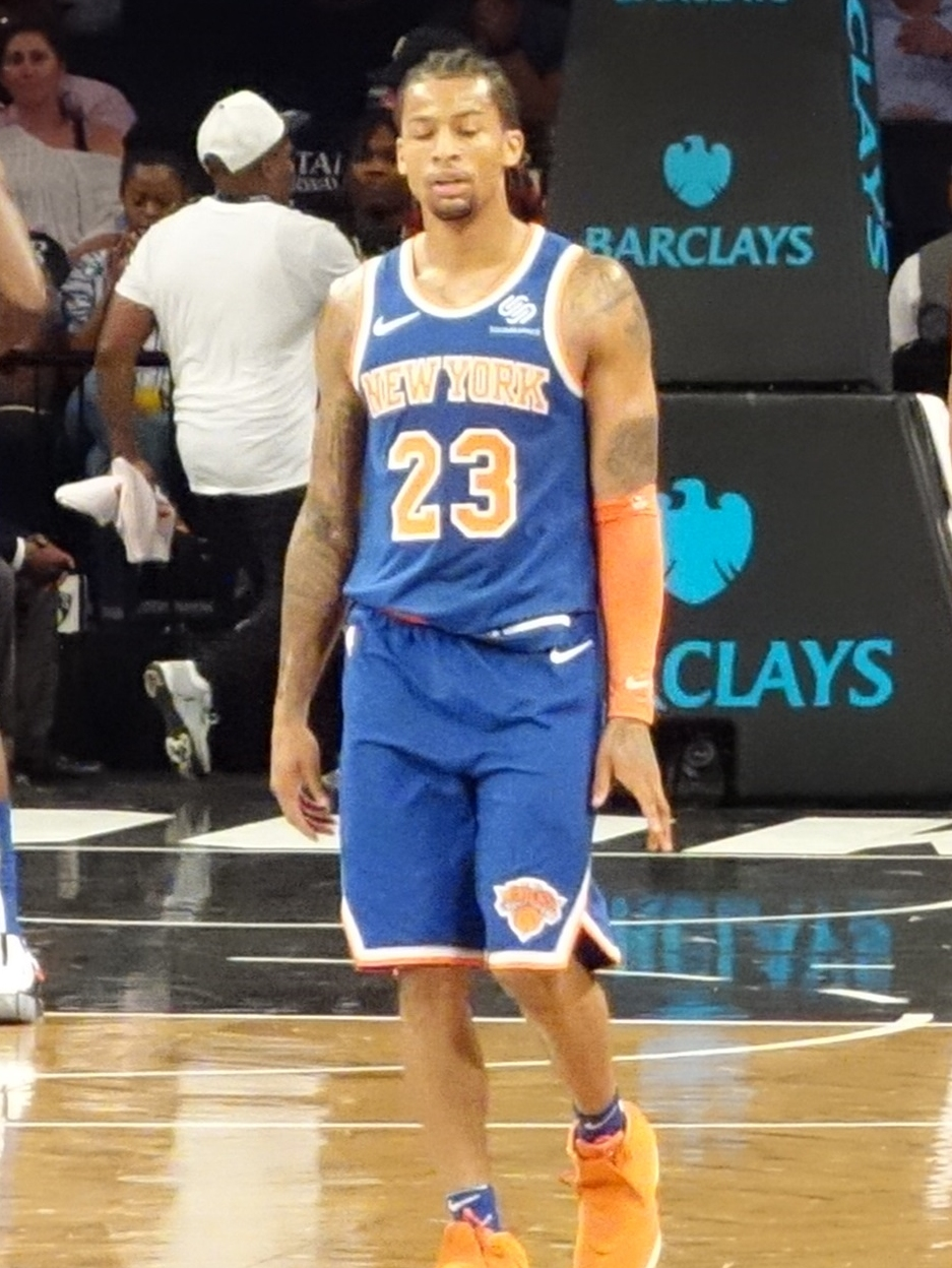 New York Knicks point guard Trey Burke during the first quarter of the NBA Preseason game between the Brooklyn Nets and the New York Knicks at the Barclays Center on October 3, 2018. Or as I call him, "baby Iverson".